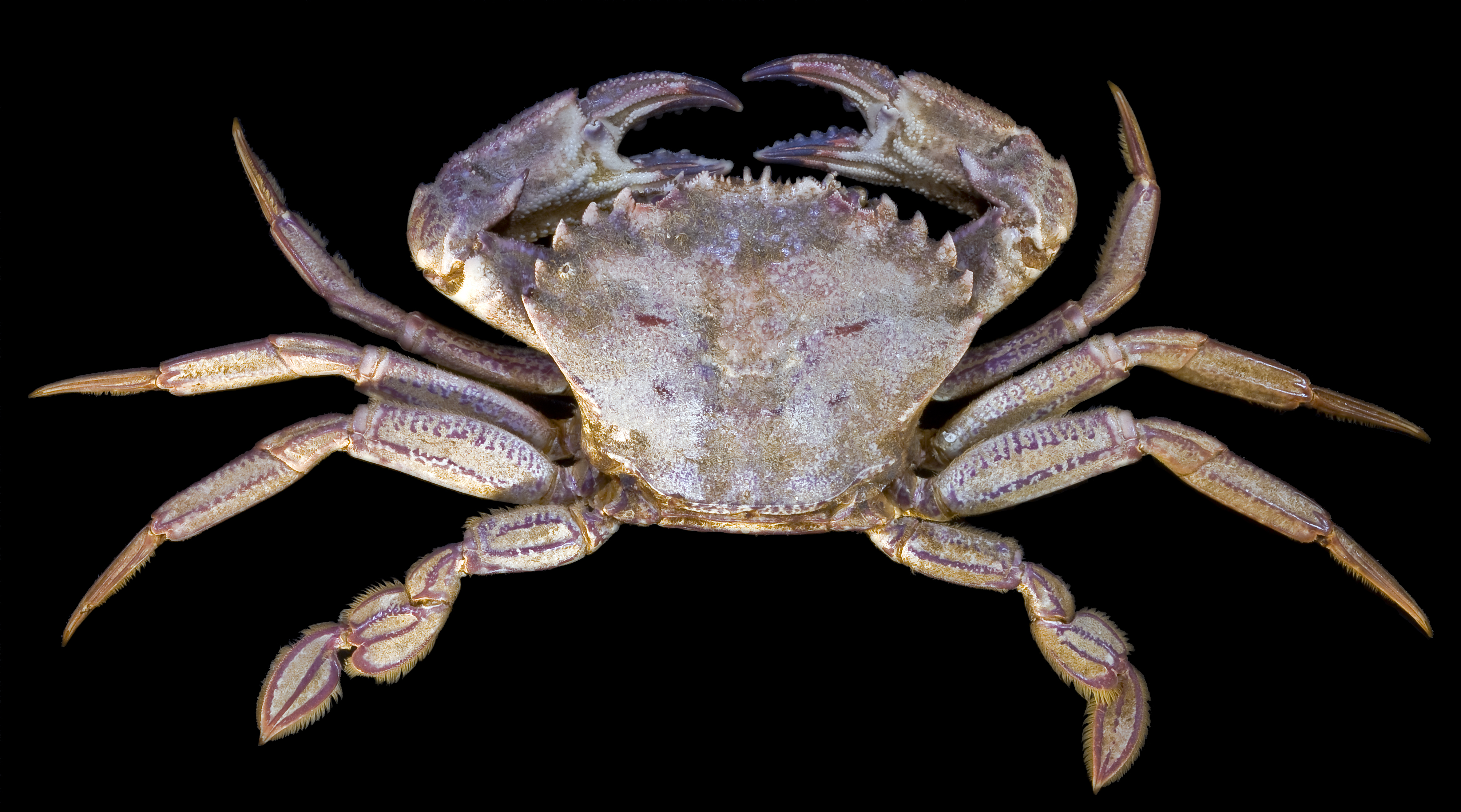 Velvet crab - Necora puber - Portunidae - Dorsal view - Carapace 7.8cm - Atlantic Ocean